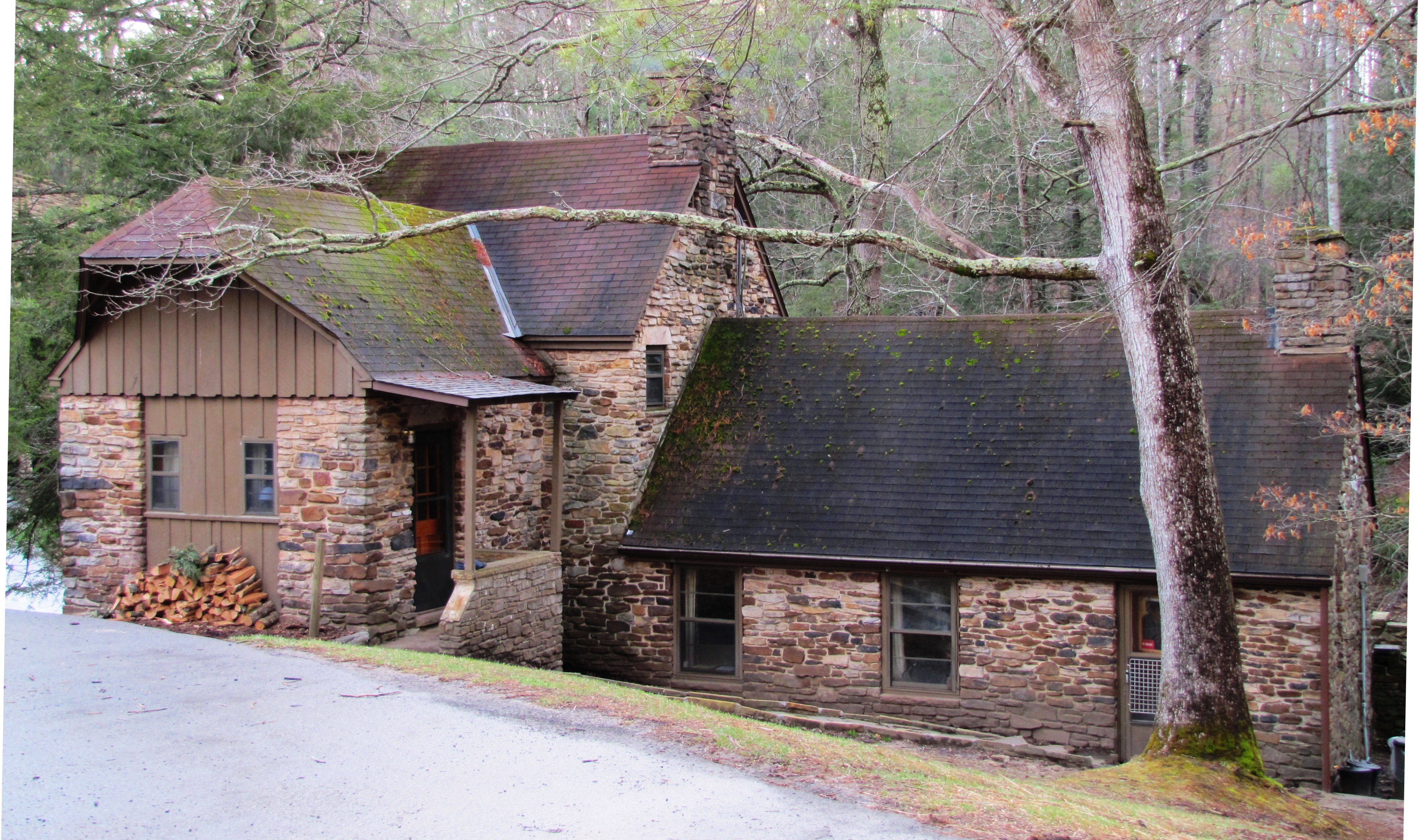 The millhouse at Cumberland Mountain State Park in Crossville, Tennessee, USA. Built in the 1930s, the millhouse now serves as a lodge.